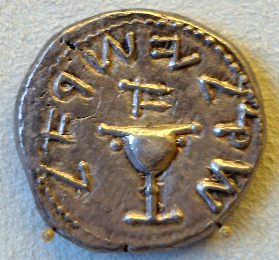 Exhibit in the Bode-Museum, Berlin, Germany. This work is in the public domain because the artist died more than 100 years ago.